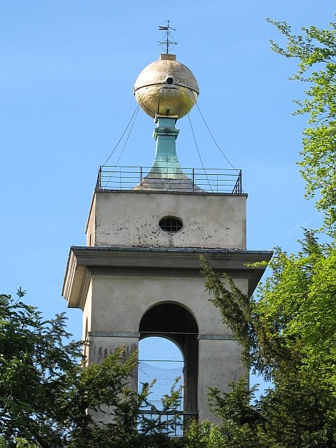 The Golden Ball Tower at top of St Lawrence's Church, West Wycombe: a landmark visible for miles around.